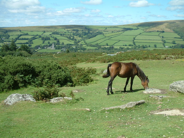 Widecombe in the Moor from On High. In the distance beyond the pony, you can see the church which is known as "The Cathedral on the Moors."